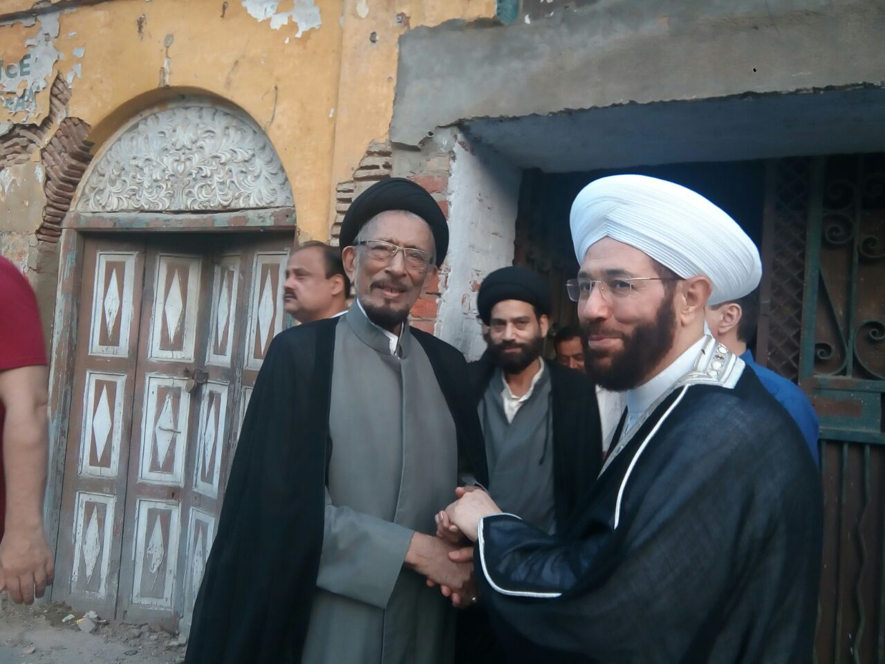 The picture was taken at the residence of Ayatollah Syed Hamidul Hasan in Lucknow, India.